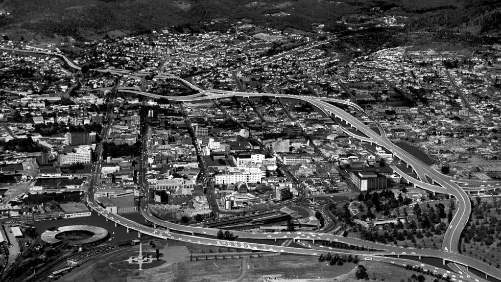 From The Mercury, JOHN LIVERMORE, Mercury March 10, 2017